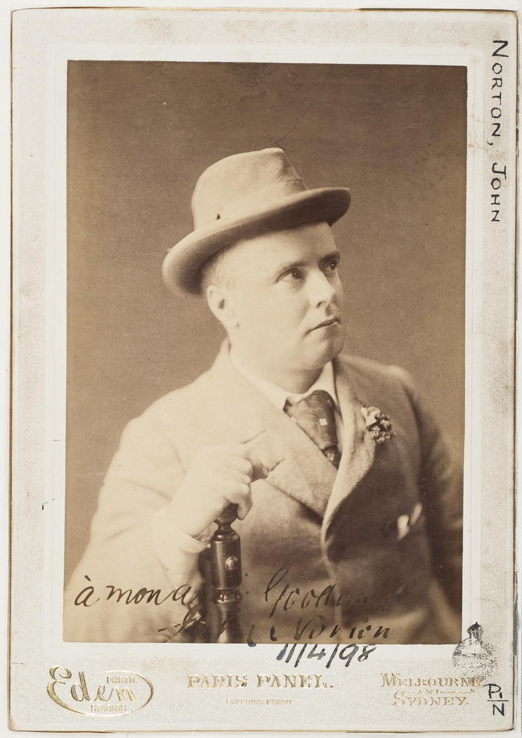 John Norton, owner and editor of the Sydney Sportsman 1898